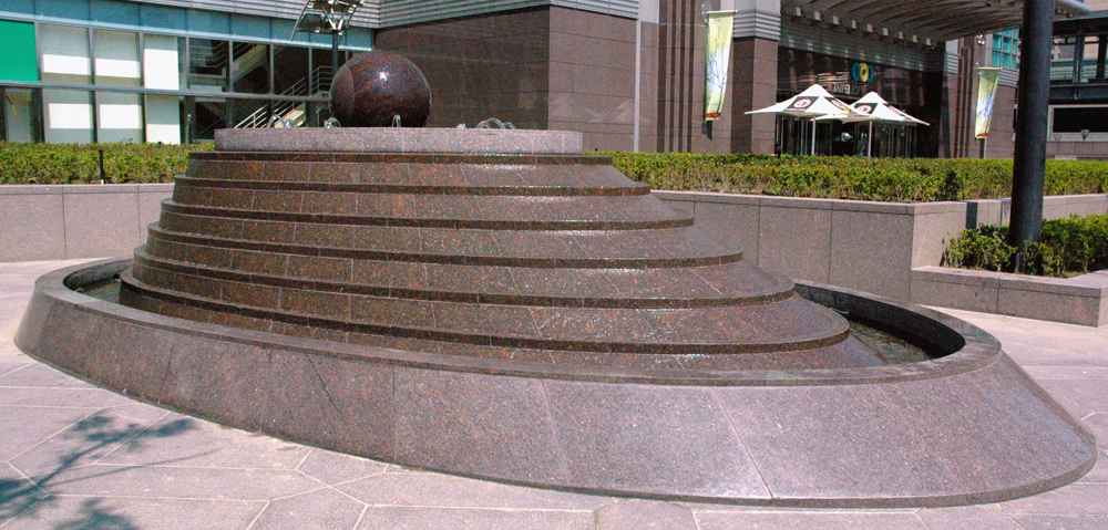 Feng Shui fountain at Taipei 101 entrance 7 on Hsinyi Road.